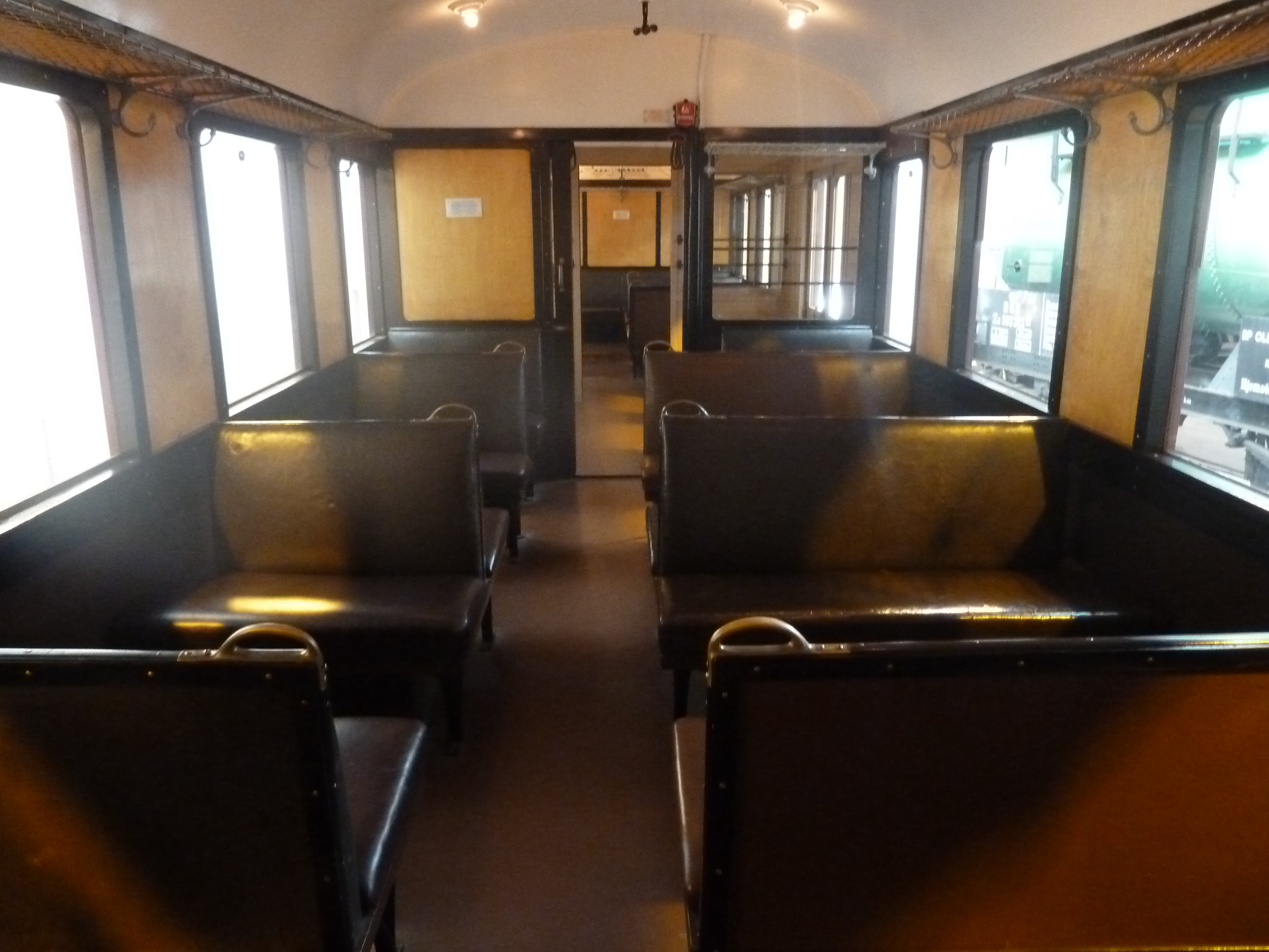 Interior of S-train motorcar from DSB, MM 718, now on Danmarks Jernbanemuseum.